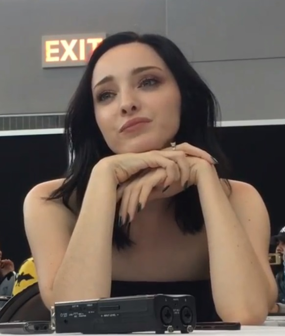 American actress Emma Dumont of The Gifted, interviewed by Geeks of Doom at New York Comic Con in 2017